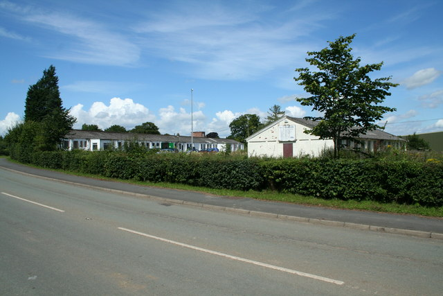 Penley Polish Hospital Formerly a wartime hospital, predominantly at war's end for Polish Servicemen.